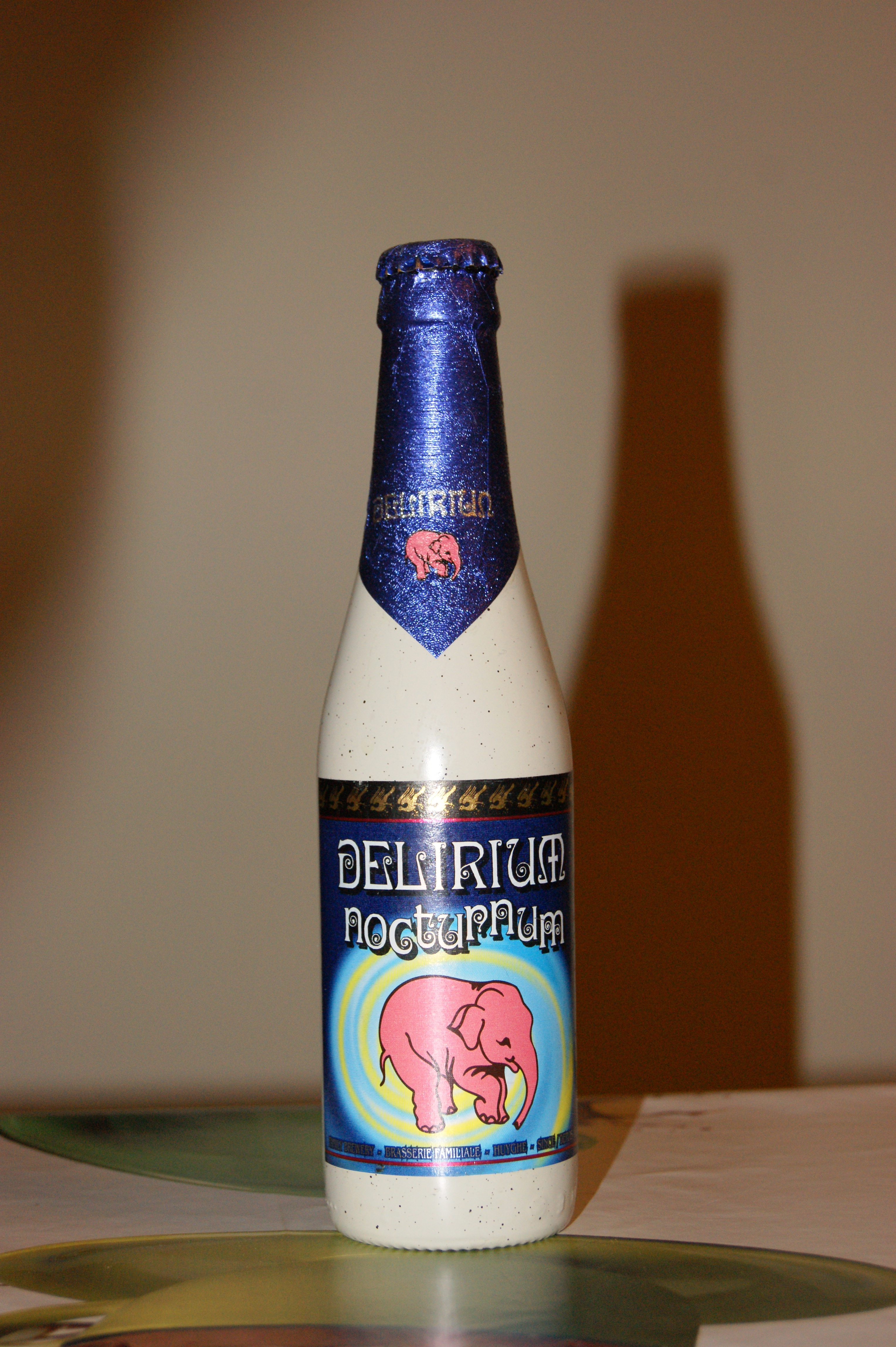 Photo of Delirium Nocturnum beer bottle